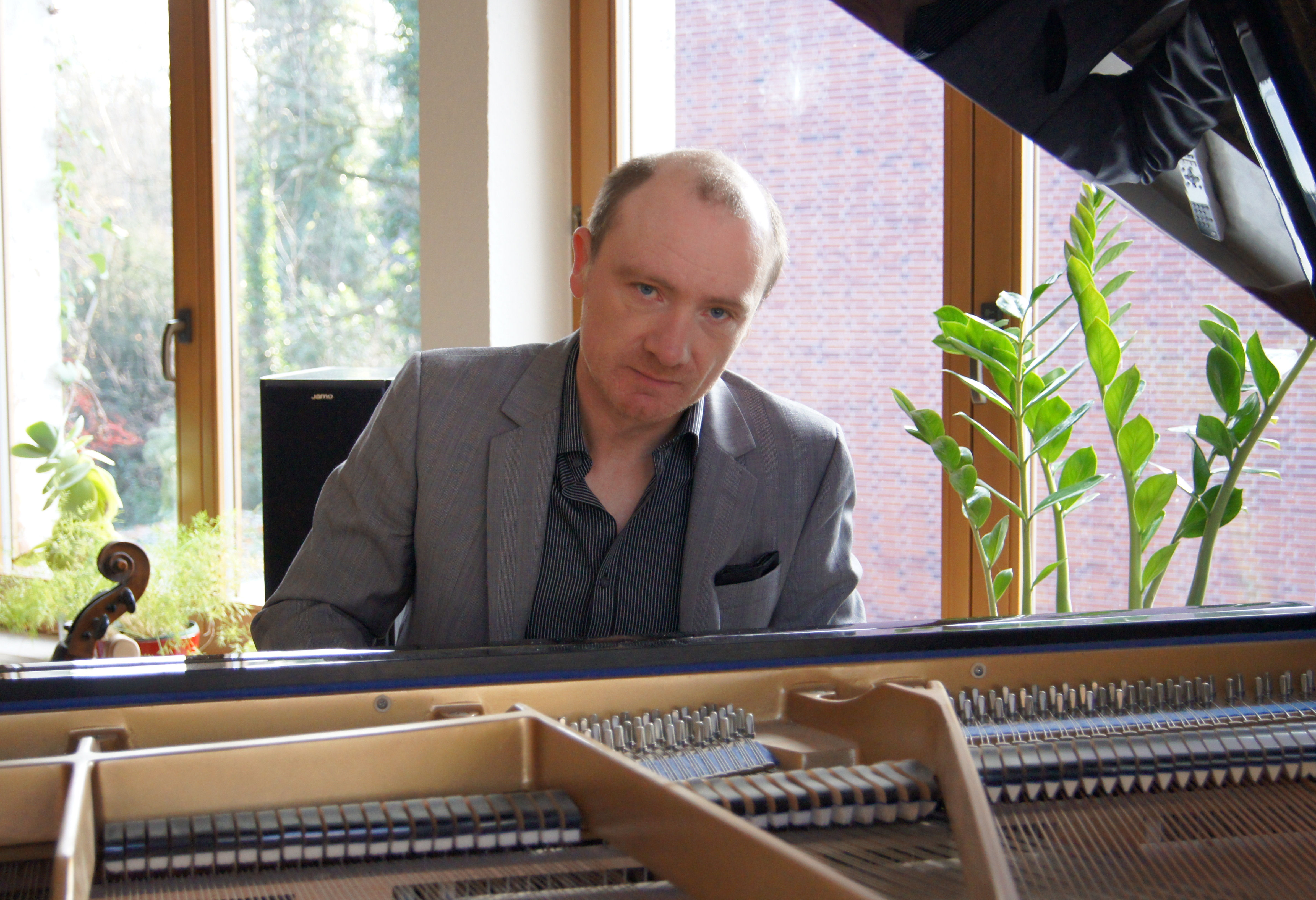 Hessler at his grand piano in Duisburg